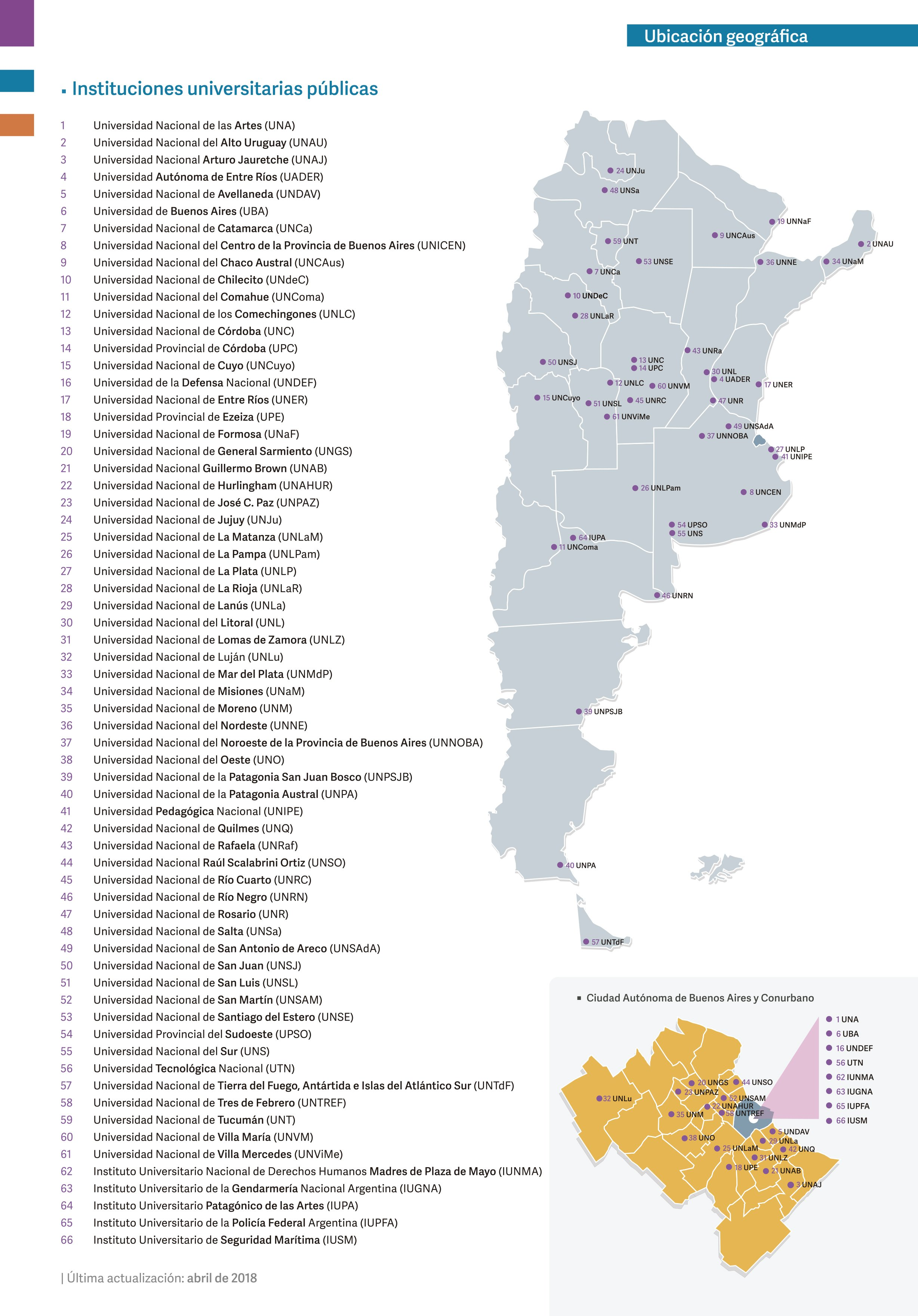 Map of universities in Argentina